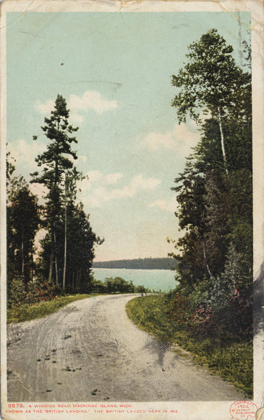 A winding road, known as the british landing, the britishlanded here in 1812